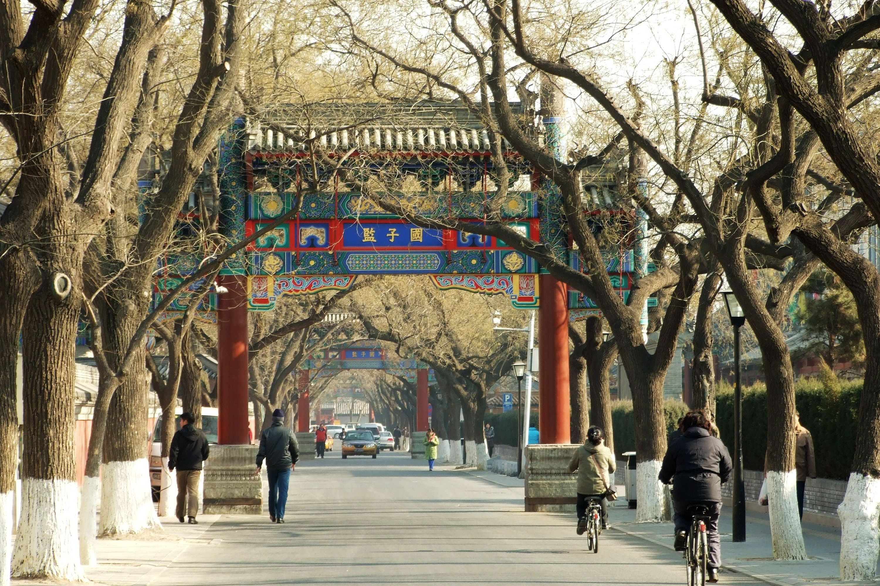 Guozijian Street 中文（中国大陆）: 北京国子监街